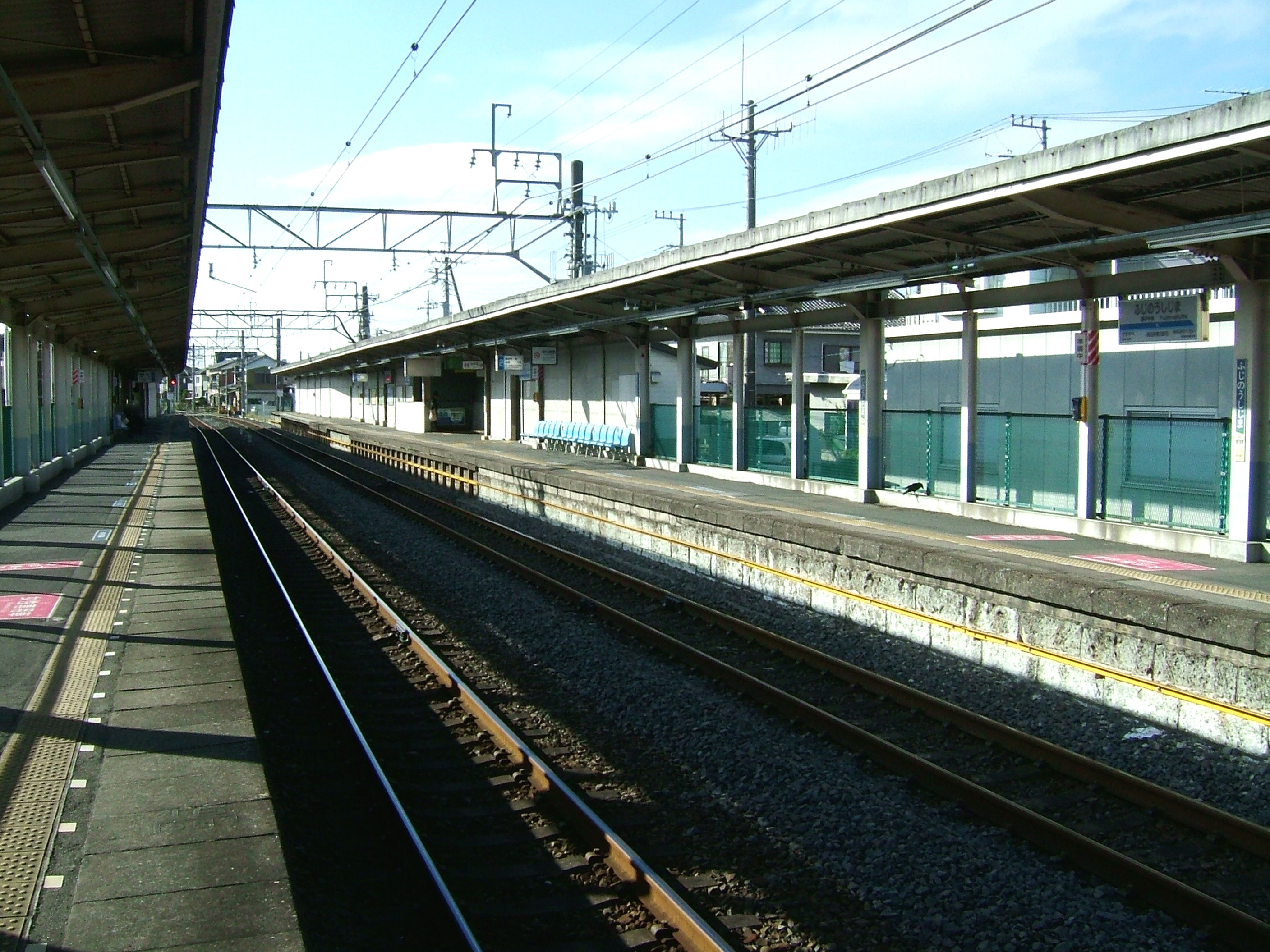 The platforms at Fujino-ushima Station on the Tobu Noda Line (present-day Tobu Urban Park Line) in Saitama Prefecture, Japan